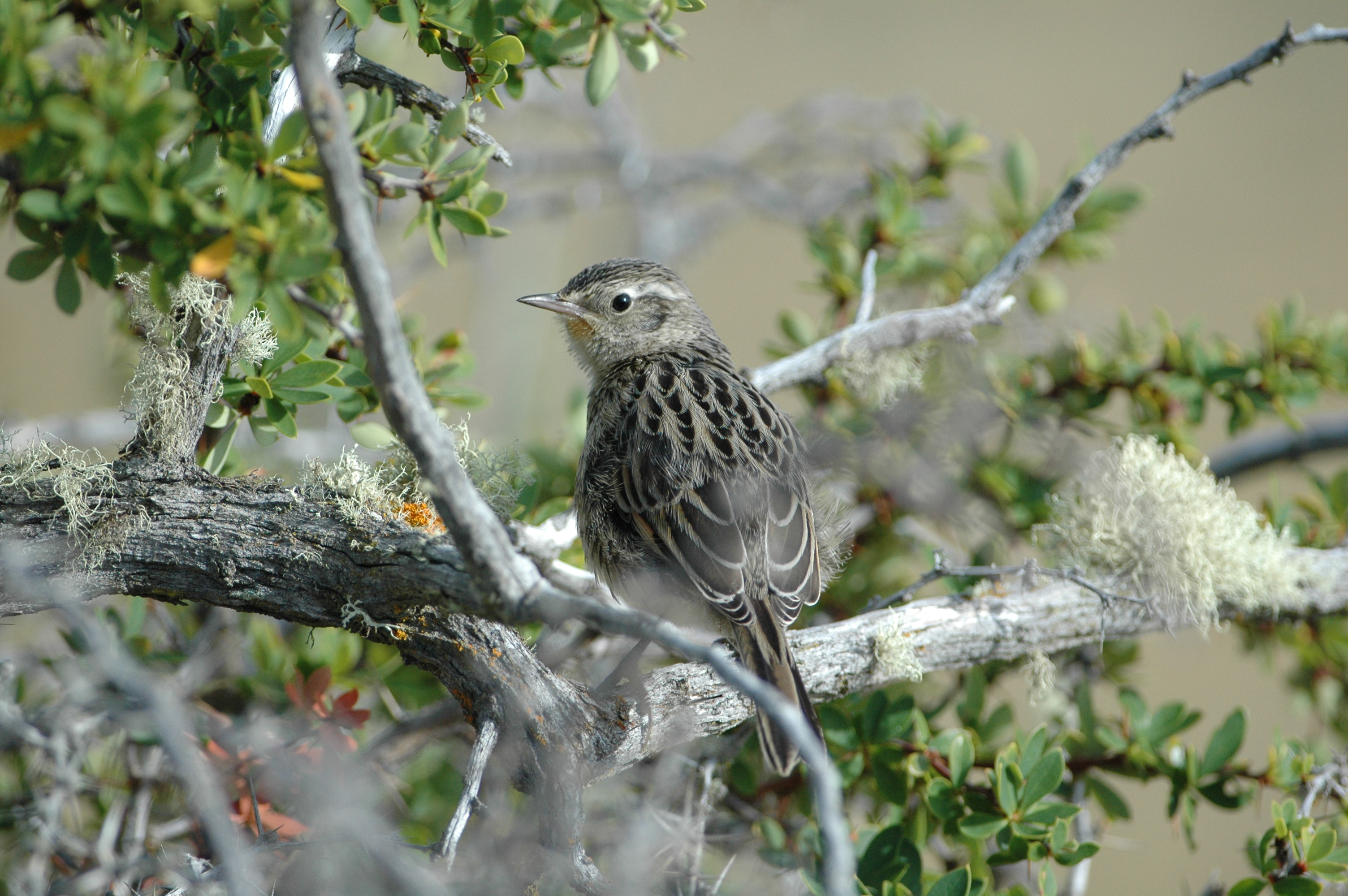 Cabo Virgines Januarie 2007